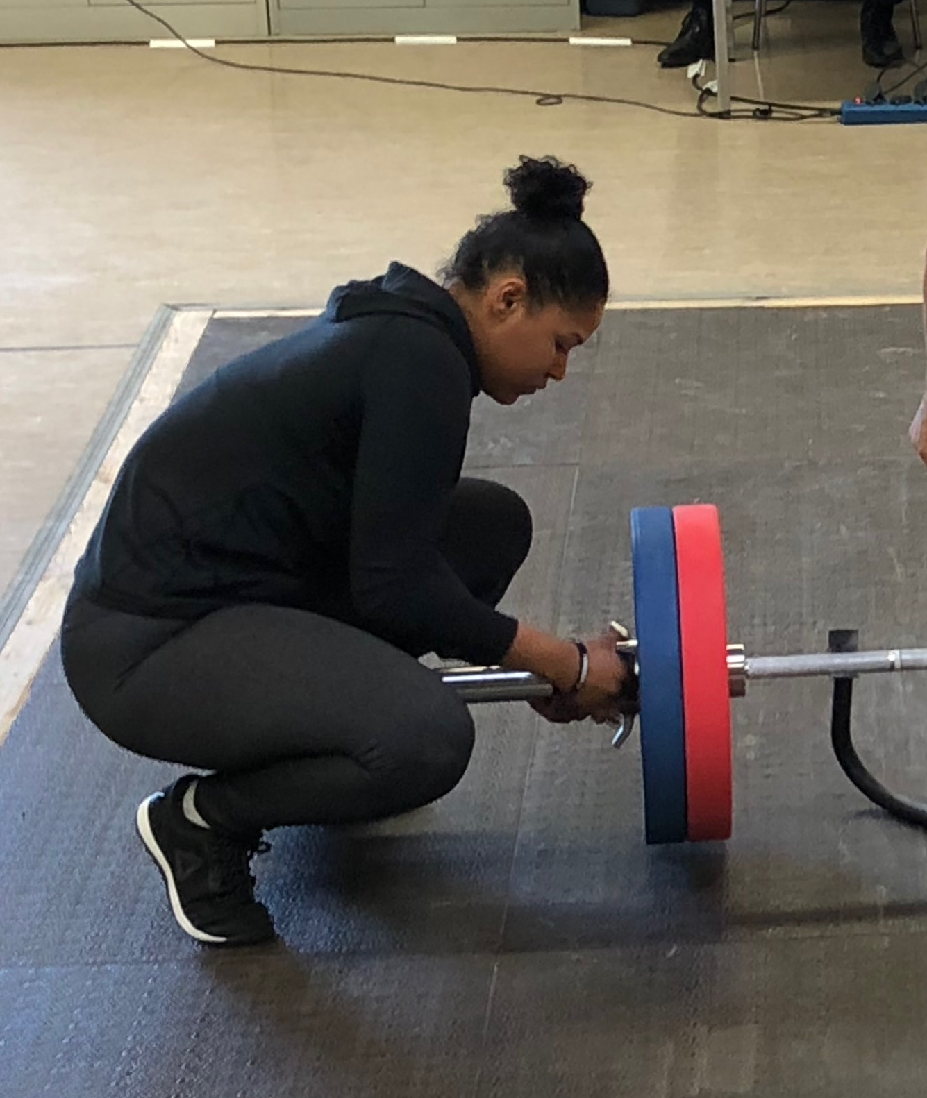 female loader controls the seat of the locking screw